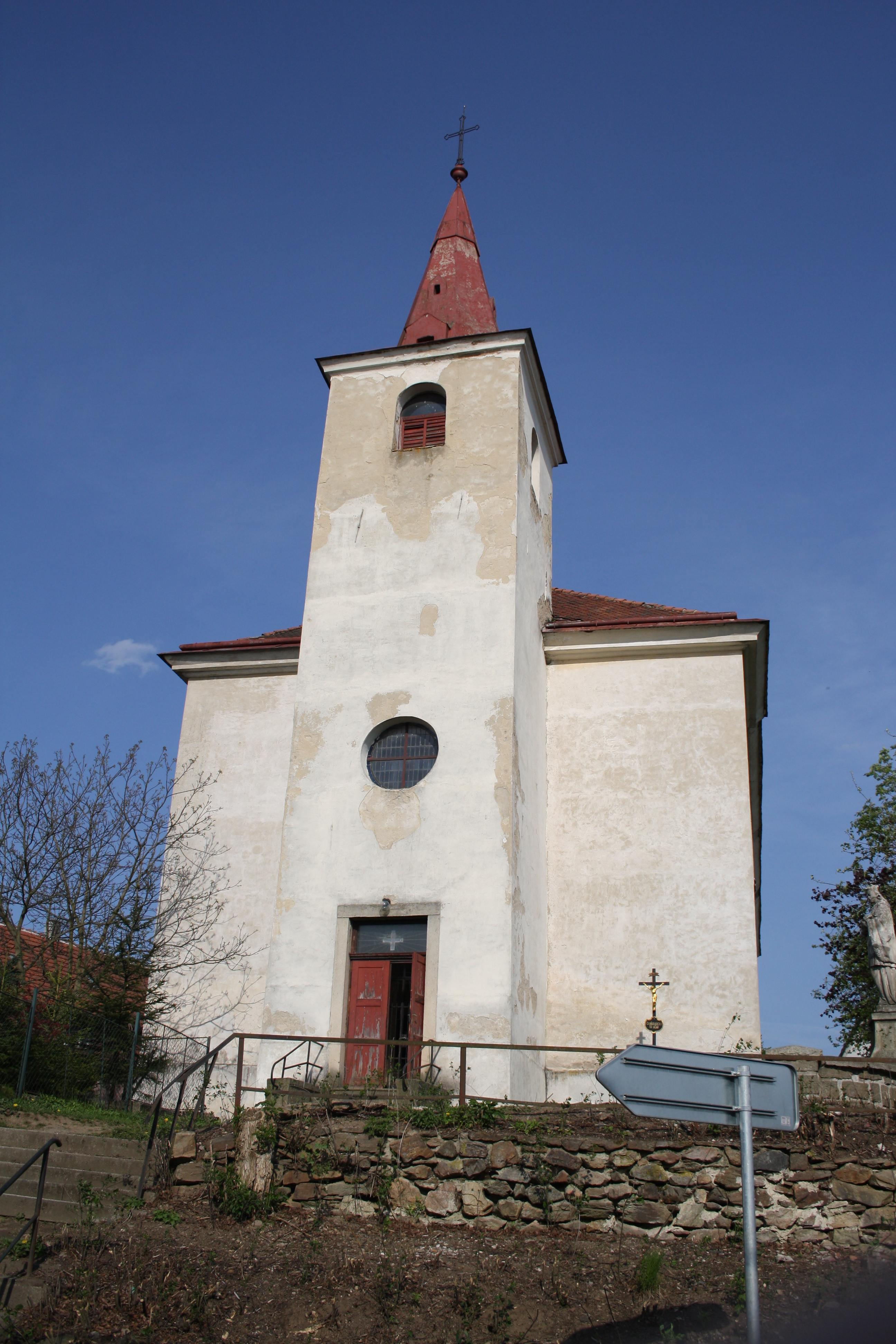 Church of Saint Wenceslaus in Předín, Czech Republic.